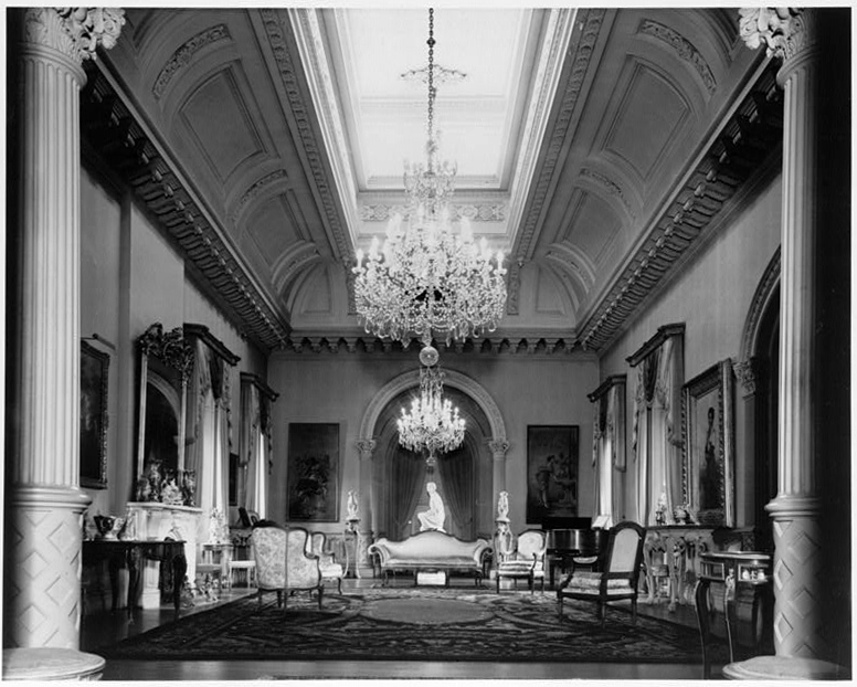 Title: Johnston-Hay House, 934 Georgia Avenue, Macon, Bibb County, GA Other Title: Johnston-Felton-Hay House Creator(s): Historic American Buildings Survey, creator Date Created/Published: Documentation compiled after 1933 Medium: Photo(s): 2 Photo Caption Page(s): 1 Reproduction Number: --- Rights Advisory: No known restrictions on images made by the U.S. Government; images copied from other sources may be restricted. ( Call Number: HABS GA,11-MACO,17- Repository: Library of Congress Prints and Photographs Division Washington, D.C. 20540 USA Notes: Survey number: HABS GA-275 National Register of Historic Places NRIS Number: 71000259 Subjects: houses Place: Georgia -- Bibb County -- Macon Latitude/Longitude: 32.84056 ,-83.6325 Collections: Historic American Buildings Survey/Historic American Engineering Record/Historic American Landscapes Survey Part of: Historic American Buildings Survey (Library of Congress) Bookmark This Record: Rights assessment is your responsibility.